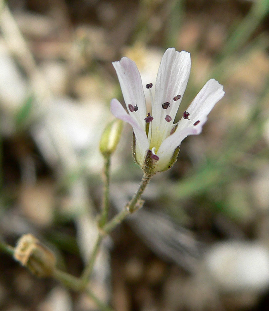 Eremogone kingii var. glabrescens on the North Loop trail east of Mummy Mountain, Spring Mountains, southern Nevada (elev. about 2900 m)